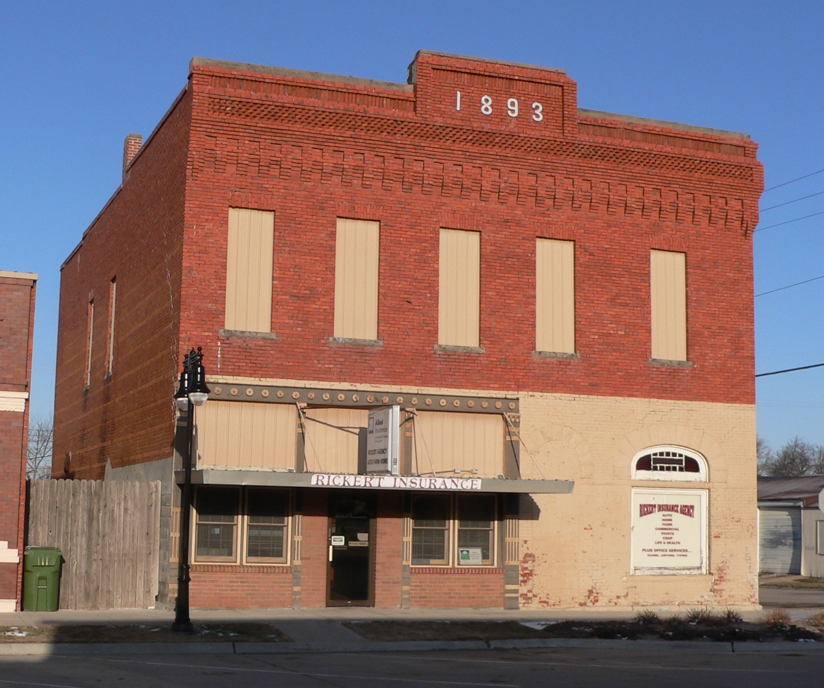 IOOF Opera House at Third and B Streets in Hampton, Nebraska, seen from the southeast. The building was constructed in 1893, and is listed in the National Register of Historic Places.